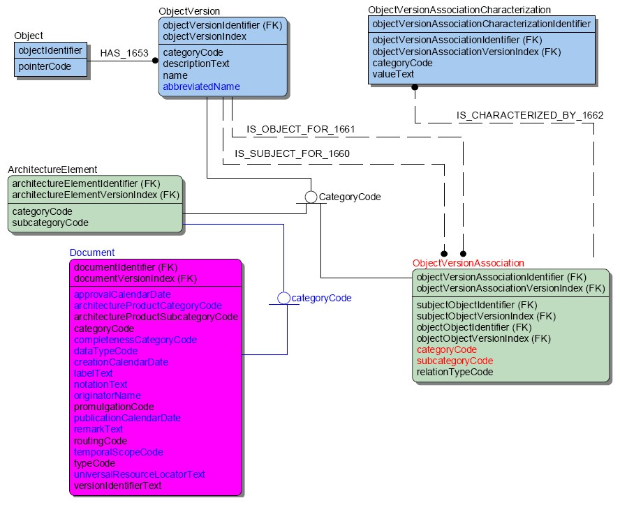 CADM Data Model Diagram Notation. As illustrated in the figure, boxes represent entities for which architecture data are collected (representing tables when used for a relational database); they are depicted by open boxes with square corners (independent entities) or rounded corners (dependent entities). The entity name is outside and on top of the open box. The lines of text inside the box denote the attributes of that entity (representing columns in the entity table when used for a relational database). The horizontal line in each box separates the primary key attributes (used to find unique instances of the entity) from the non-key descriptive attributes. The symbol with a circle and line underneath indicates subtyping, for which all the entities connected below are non-overlapping subsets of the entity connected at the top of the symbol. Relationships are represented by dotted (non-identifying) and solid (identifying) relationships in which the child entity (the one nearest the solid dot) has zero, one, or many instances associated to each instance of the parent entity (the other entity connected by the relationship line).